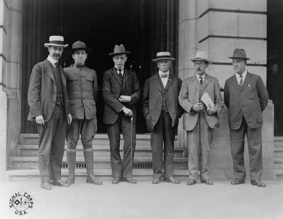 This is an image of the members of the United States diplomatic mission dispatched to Russia in 1917 by President Woodrow Wilson under the leadership of former Secretary of State Elihu Root.